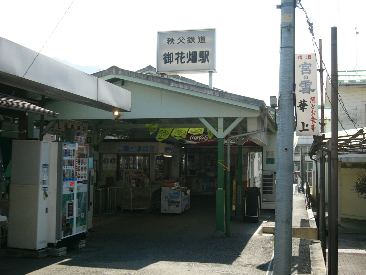 Ohanabatake Station on the Chichibu Main Line in Saitama Prefecture, Japan